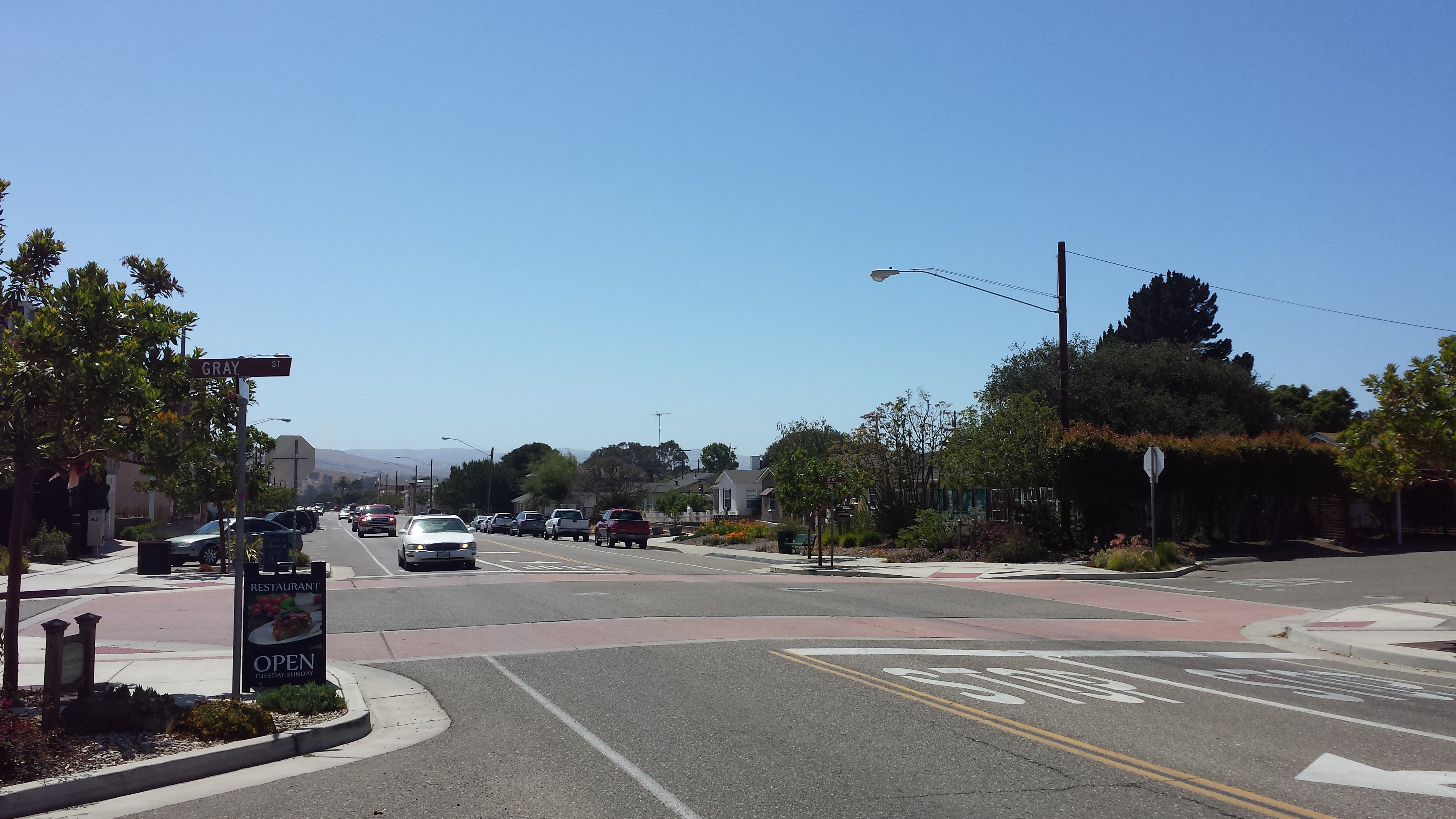 Clark Avenue in downtown Orcutt, looking west, between Highways 1 and 135